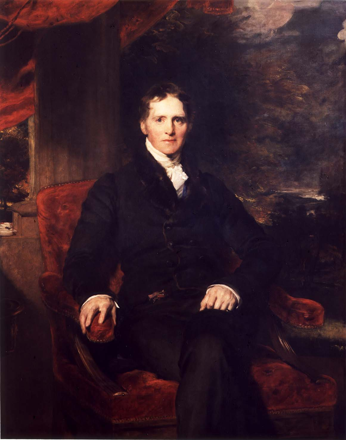 Benjamin Gott (1762-1840), Mayor of Leeds in 1799